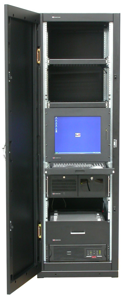 Chassis Plans 19" Rack Author David Lippincott for Chassis Plans URL